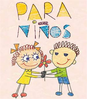 For childrens